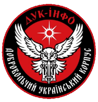 Sleeve patch for the Information Department of the Ukrainian Volunteer Corps (UVC)